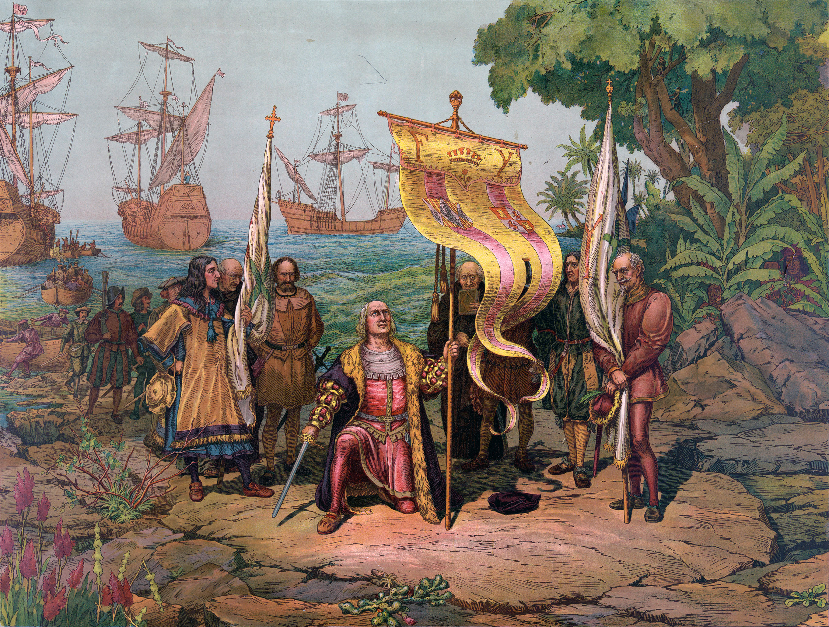 Christoper Columbus arrives in America